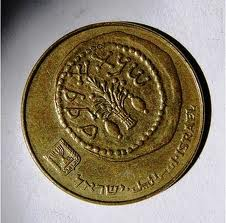 Coin from the Bar Kochba rebellion. Etrogs are seen on both sides of the lulav.